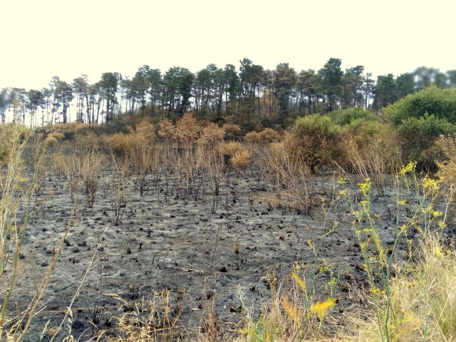 The aftermath of the bushfires in Prospect Hill, Sydney (near Pemulwuy and Greystanes) in January 2020.